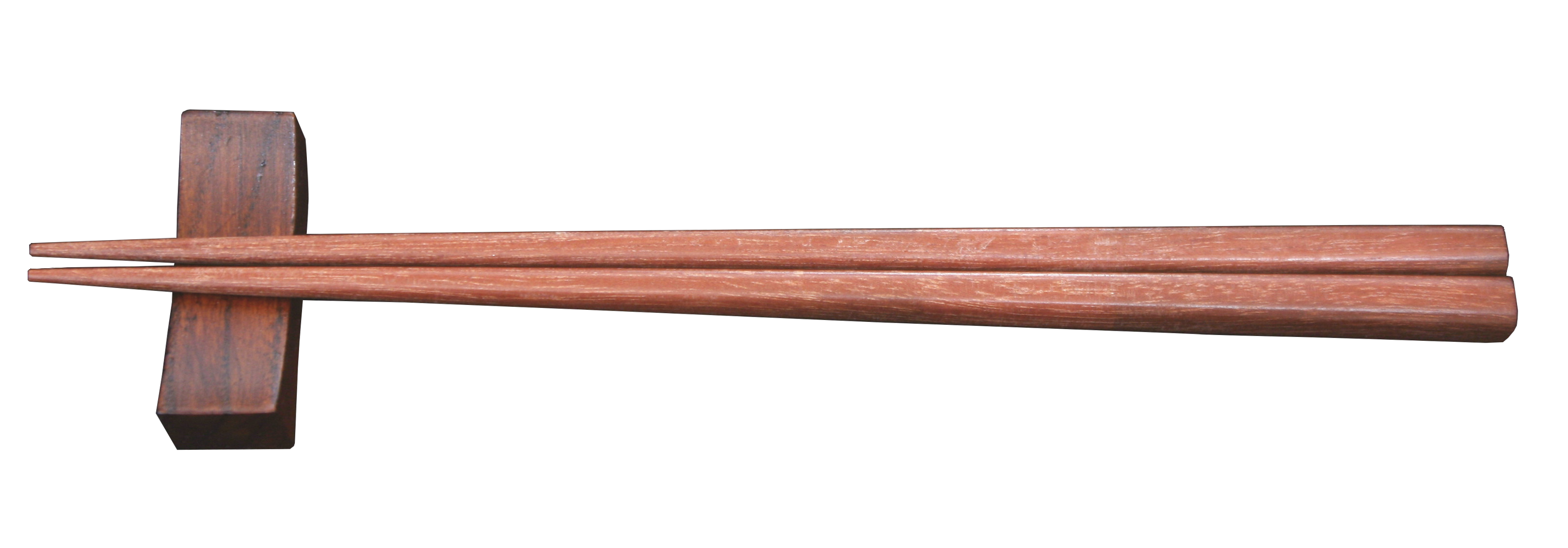 orig. Author: User:毛抜き Deriv. by user:richardprins Chopsticks